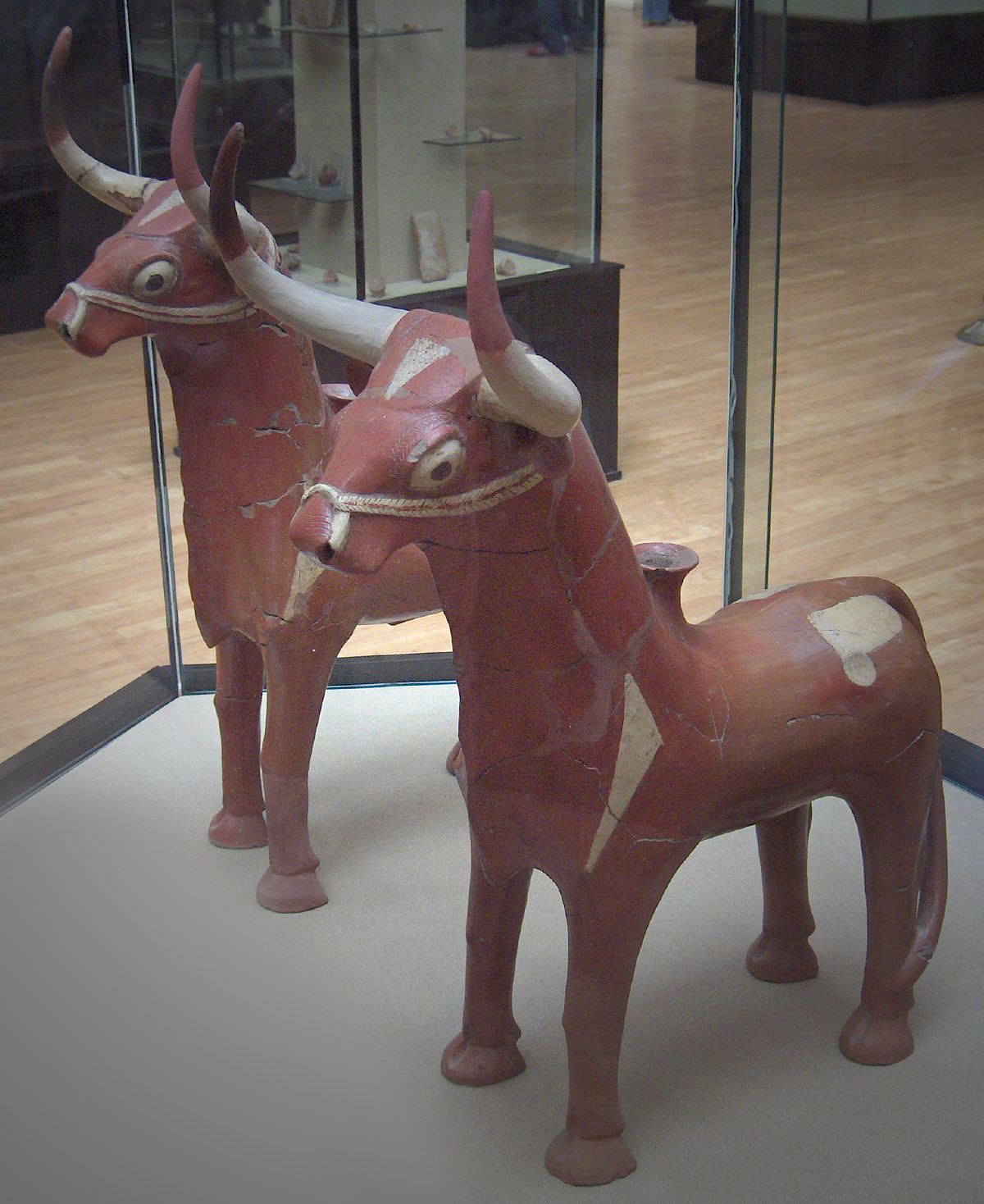 Ceremonial vessels in the shape of a team of sacred bulls made of baked clay, called Hurri (= Day) and Seri (= Night); height : 90 cm; found in the citadel Büyükkale in Boğazköy (Hattusha); Hittite Old Kingdom; 16th century BC; Museum of Anatolian Civilizations, Ankara, Turkey